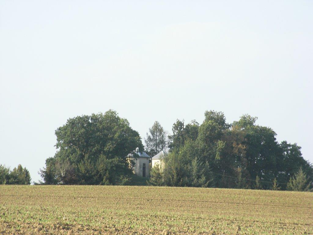 Elevated tank in Neuschönfels